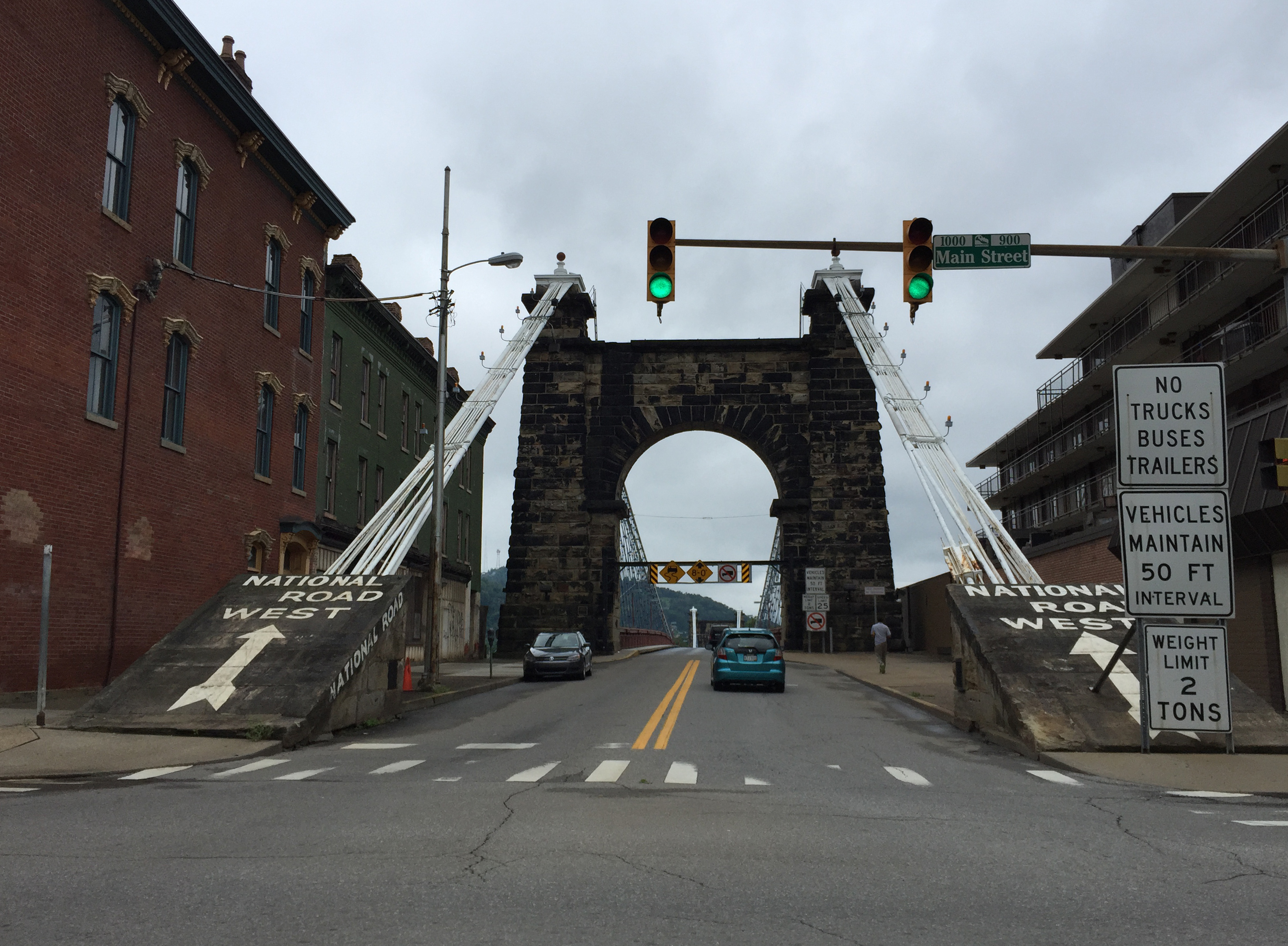 View west along West Virginia State Route 251 (Wheeling Suspension Bridge) at West Virginia State Route 2 (Main Street) in Wheeling, Ohio County, West Virginia